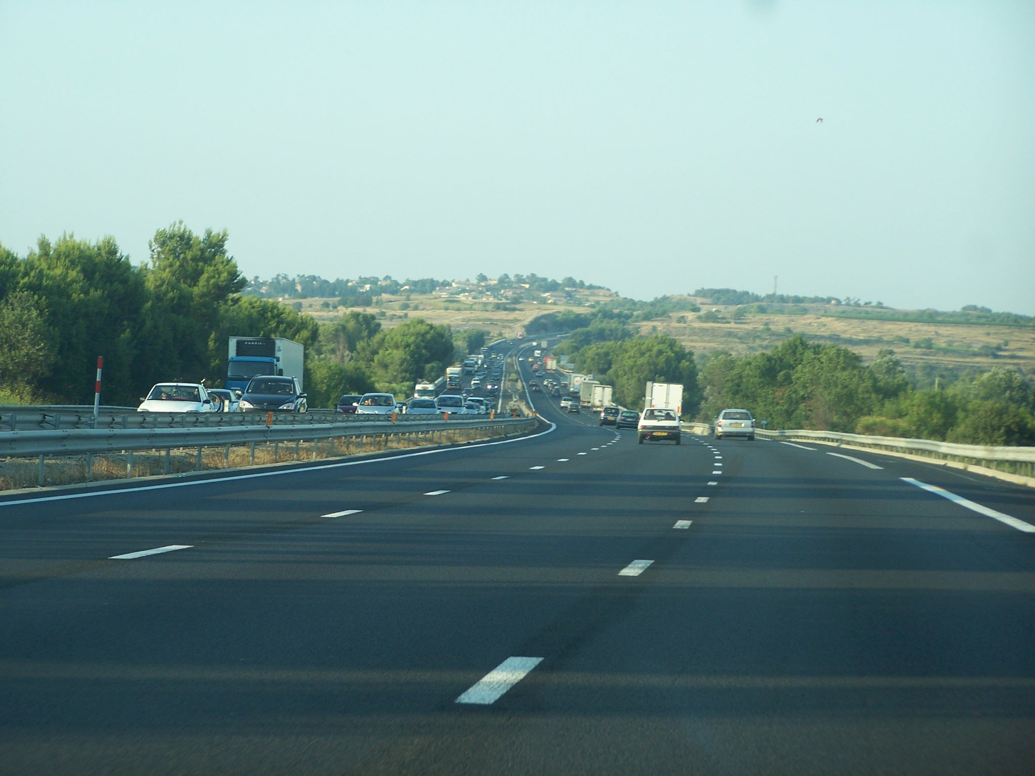 The French motorway A9 (La Languedocienne) direction Montpellier at the very end of the departmnent of Aude.